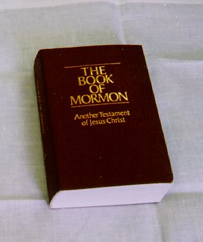 U.S. Military edition of the Book of Mormon, published by The Church of Jesus Christ of Latter-day Saints; photo from